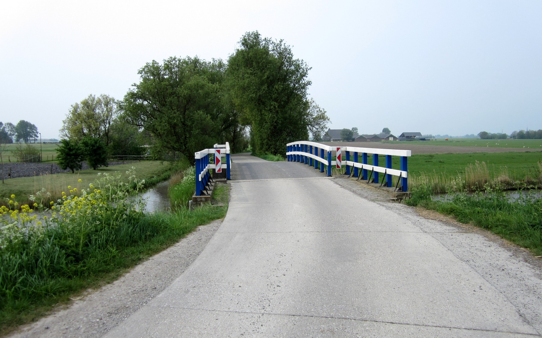 Mûntsjetille, a regionally famous bridge near Winsum, Friesland, the Netherlands.